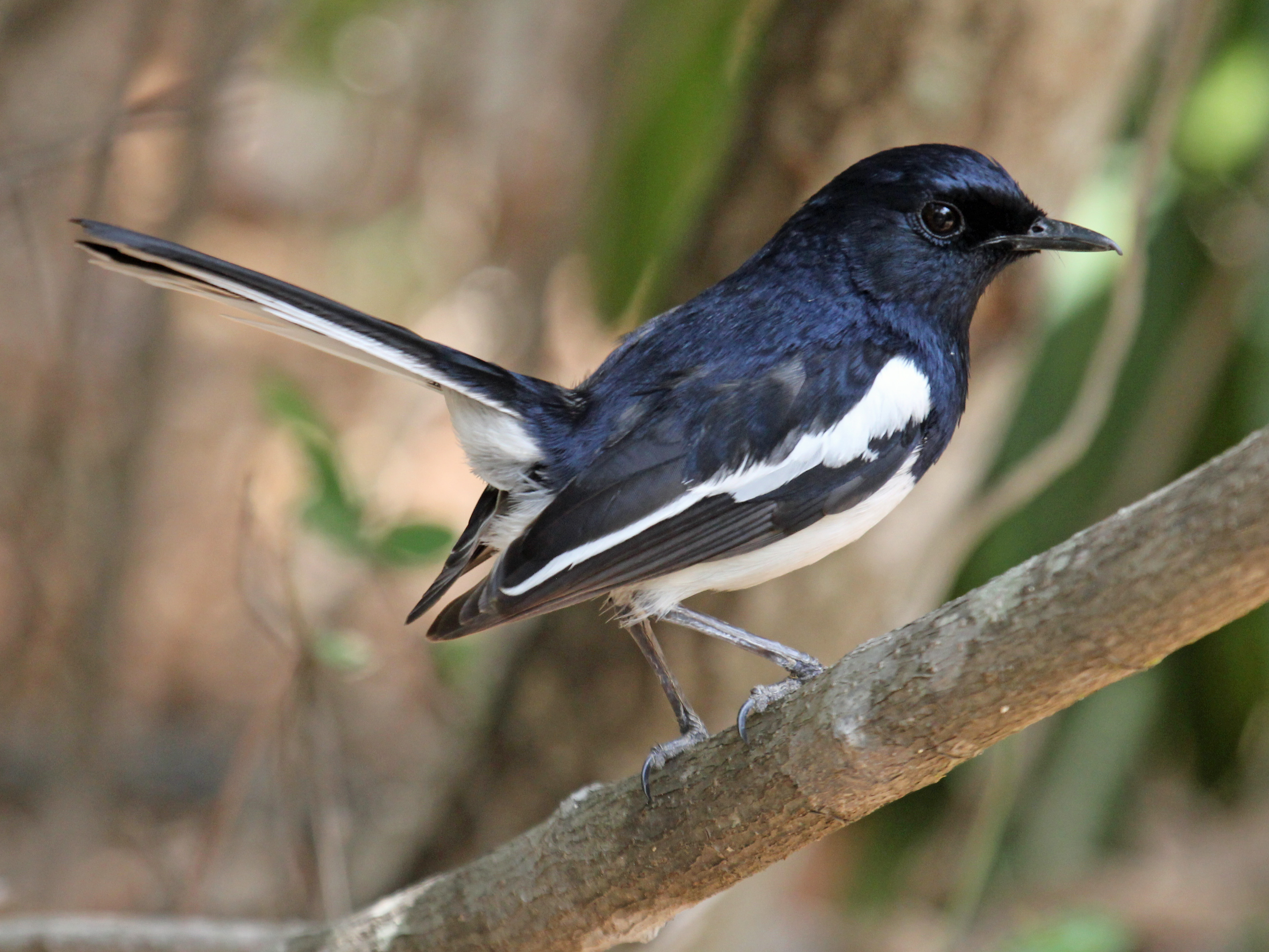 Male Madagascar Magpie Robin (Copsychus albospecularis) - near Isalo, Madagascar. Subspecies pica. Charles (talk) 15:10, 31 December 2018 (UTC)